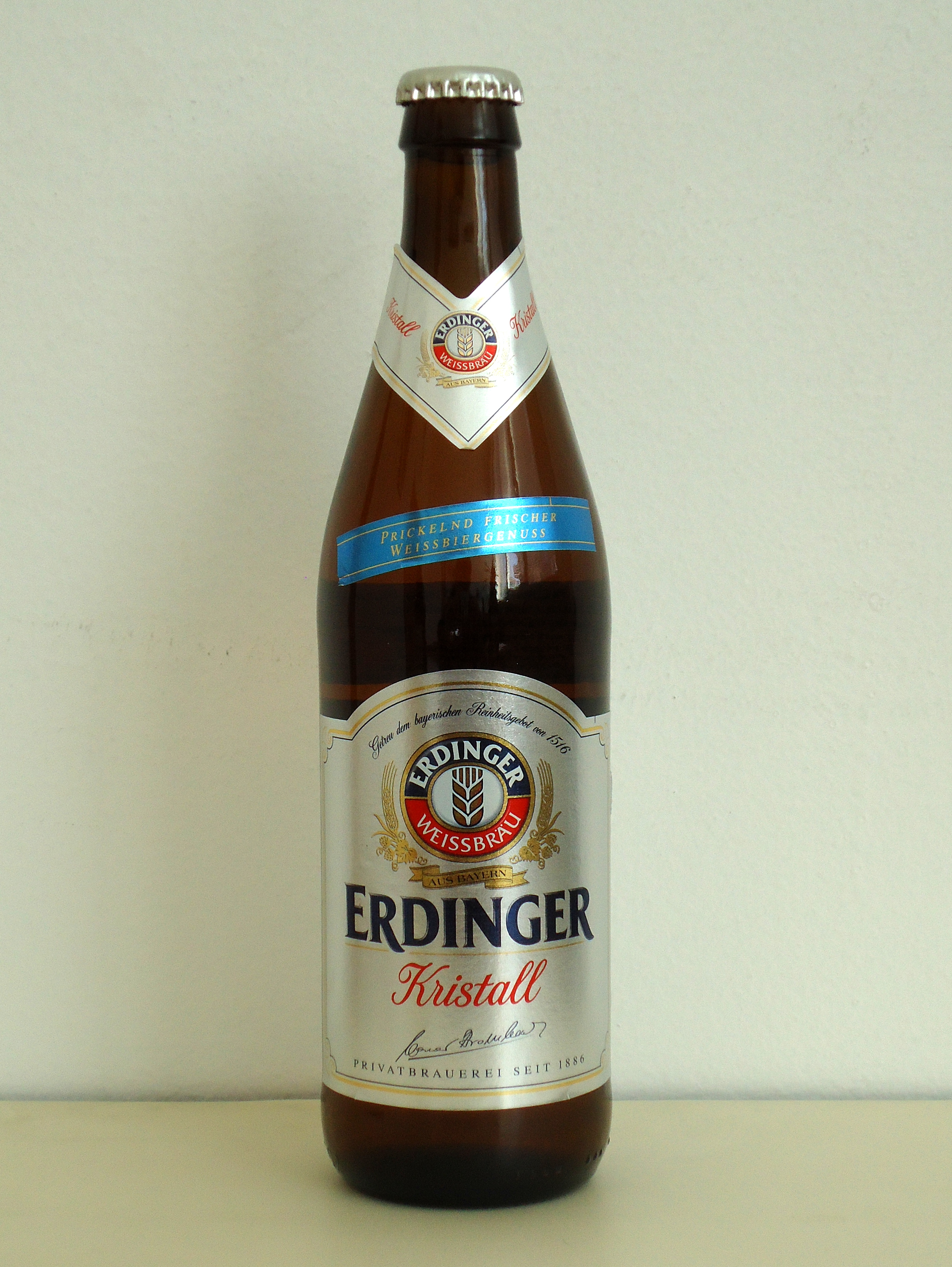 Erdinger Kristall beer